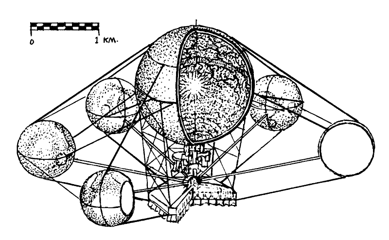 Interstellar vessel of Island One size, ion-driven. Central arc substitutes for sunlight. Reaction of matter and antimatter gives power (twenty-first and -second centuries).